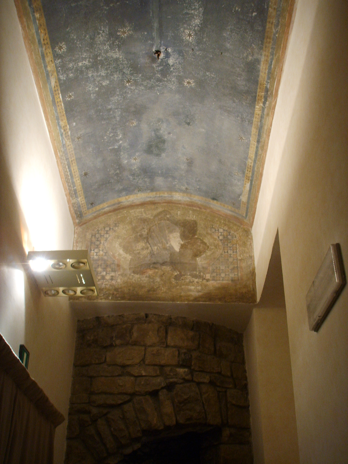 The so-called "Beatrice's well" in Palazzo Spini Feroni in Florence, Italy.